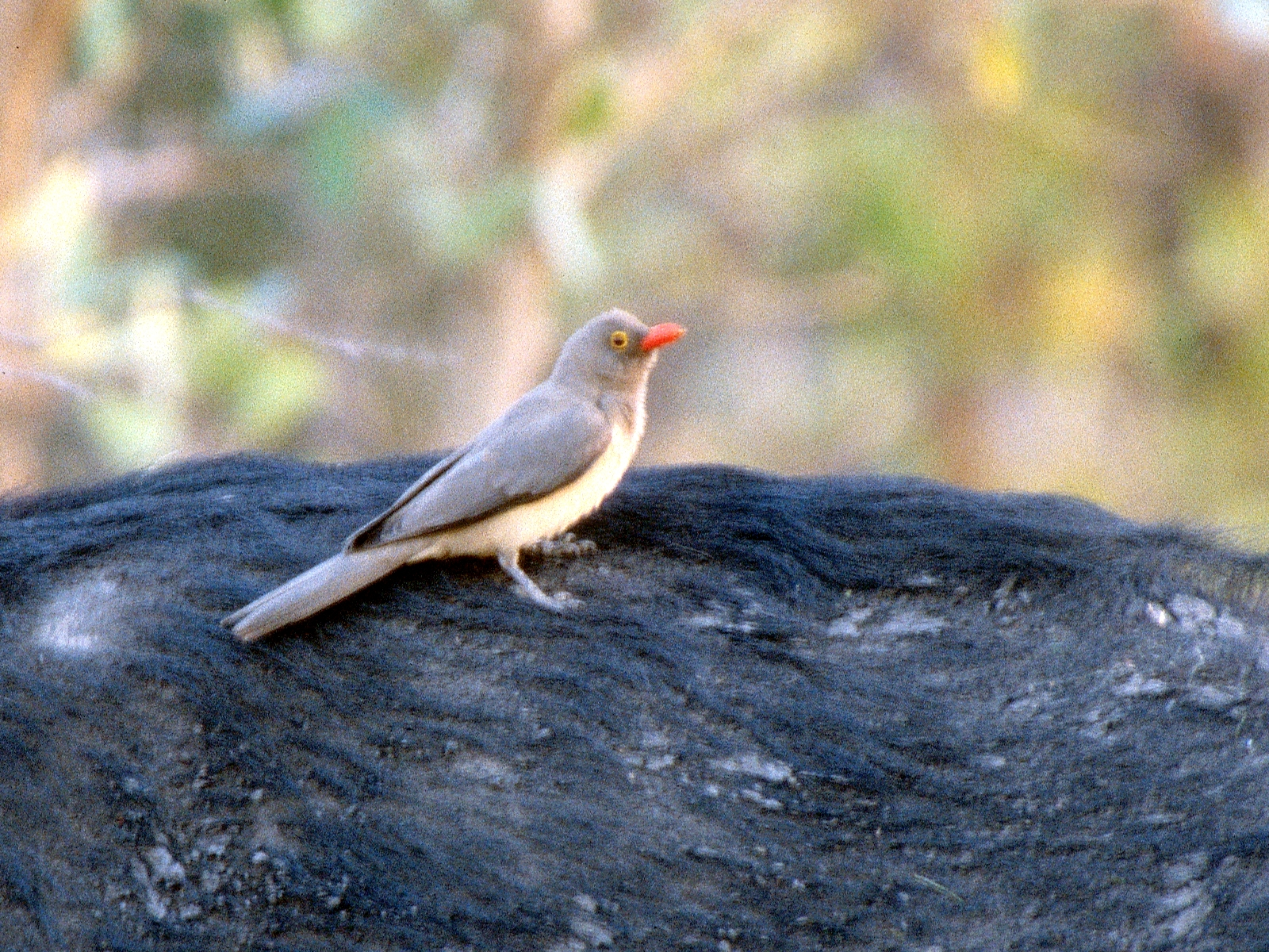 Red-billed Oxpecker (Buphagus erythrorhynchus) atop an African Buffalo